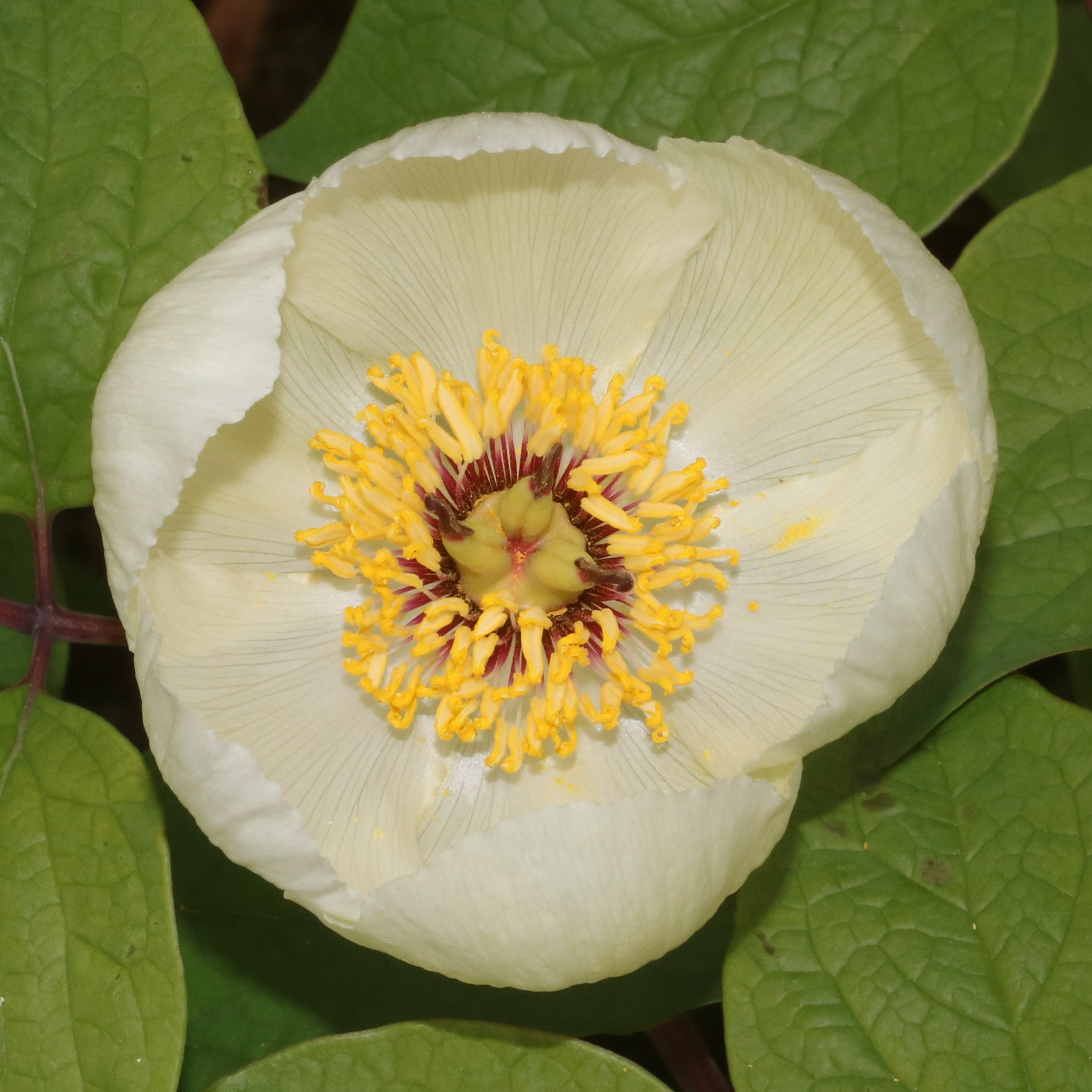 Paeonia japonica in Mount Ryozen of Suzuka Mountains, Taga, Shiga prefecture, Japan.